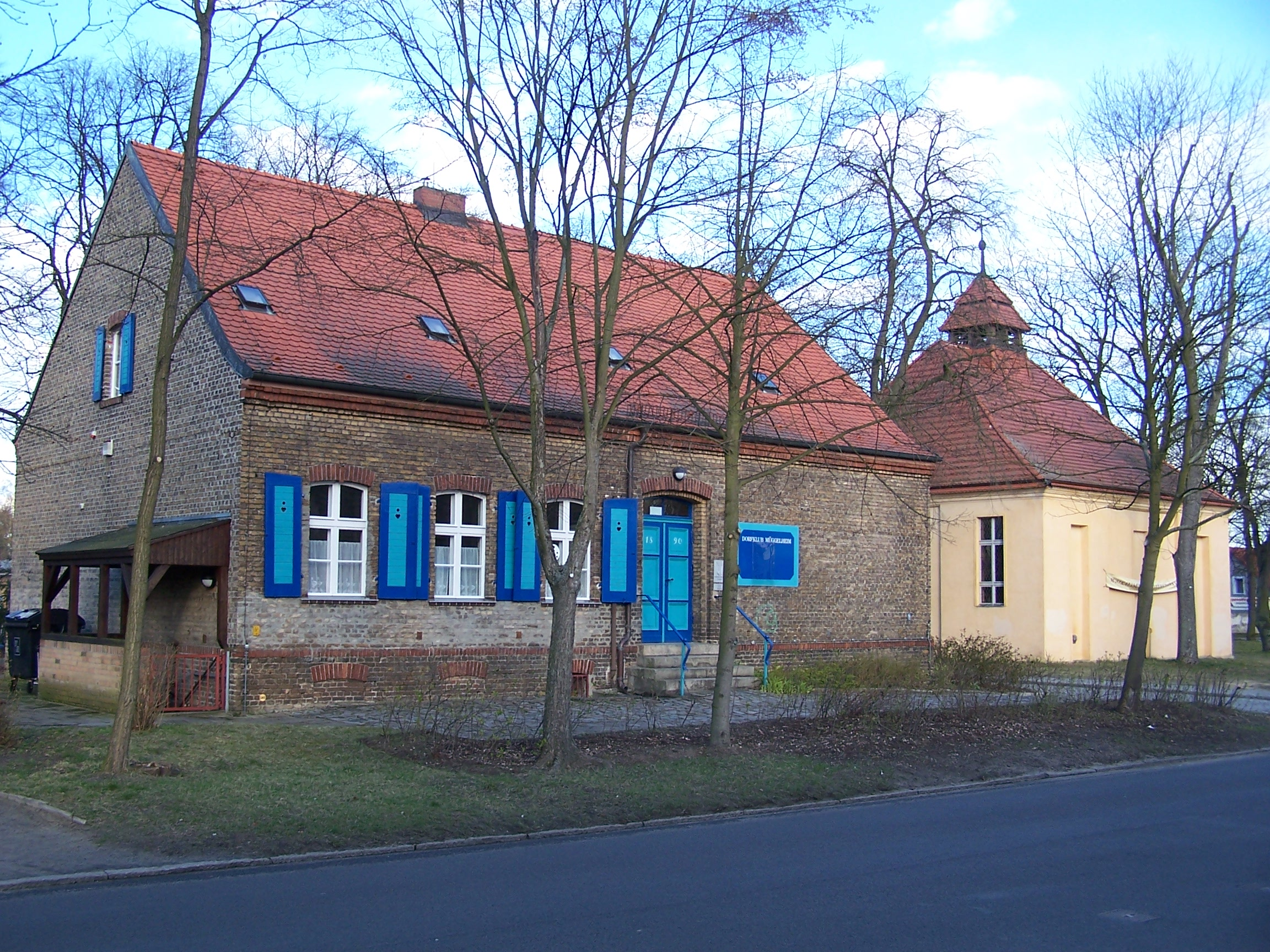 The building of the former school of Berlin-Müggelheim (which serves as the “Dorfclub“ (clubhouse) today) and the church in the background.